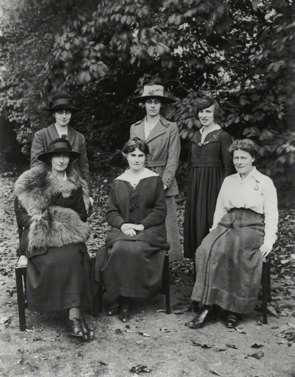 Staff of St Hilda's College, Oxford, including (back row centre) Ada Elizabeth Levett (d. 1932), historian, author and lecturer, St Hilda's College, Oxford. Levett was later appointed to a history chair at Westfield College, University of London